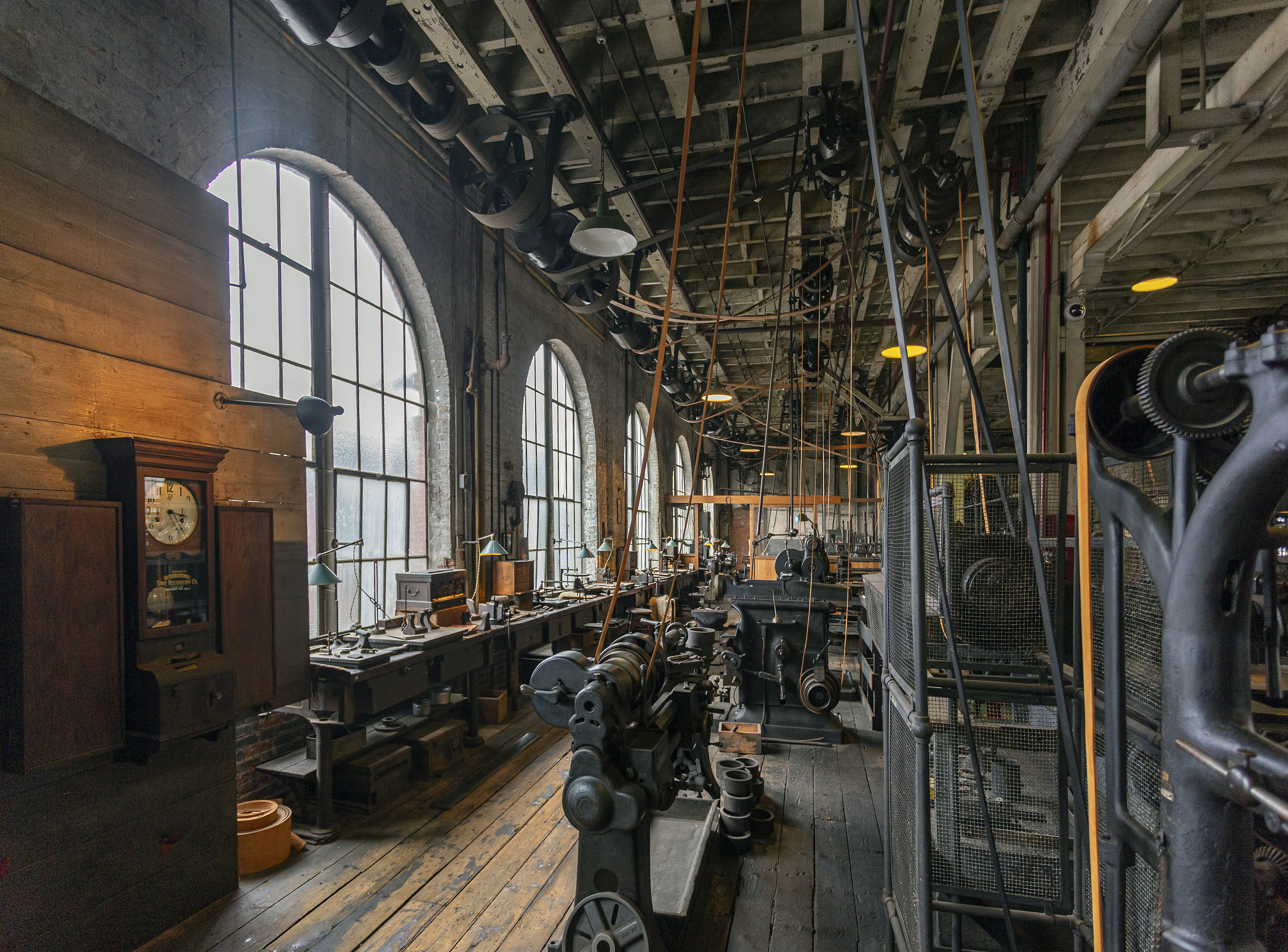 Thomas Edison workshop, Thomas Edison National Historical Park, New Jersey, USA